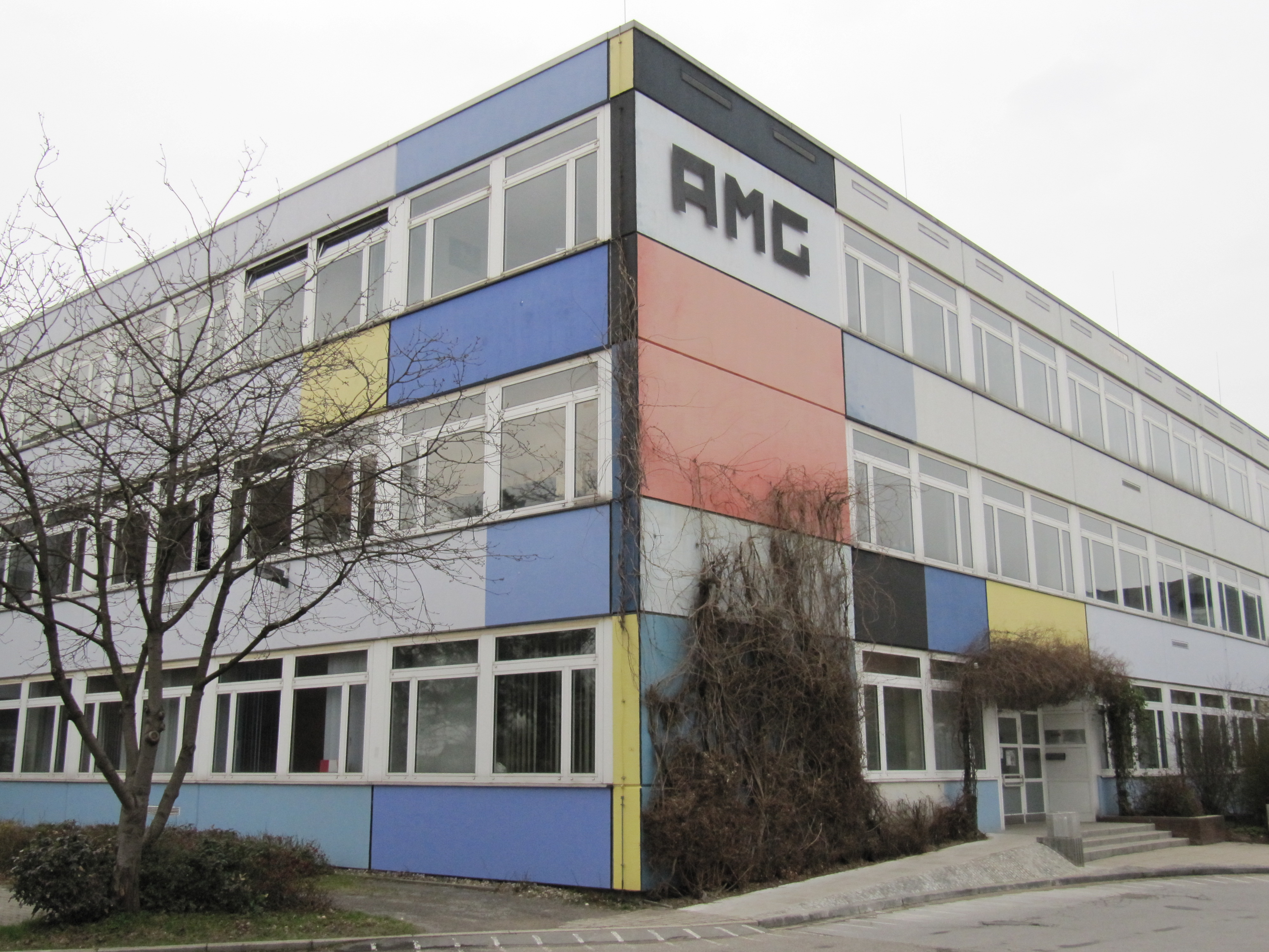 school Albert-Martmöller-Gymnasium in Witten